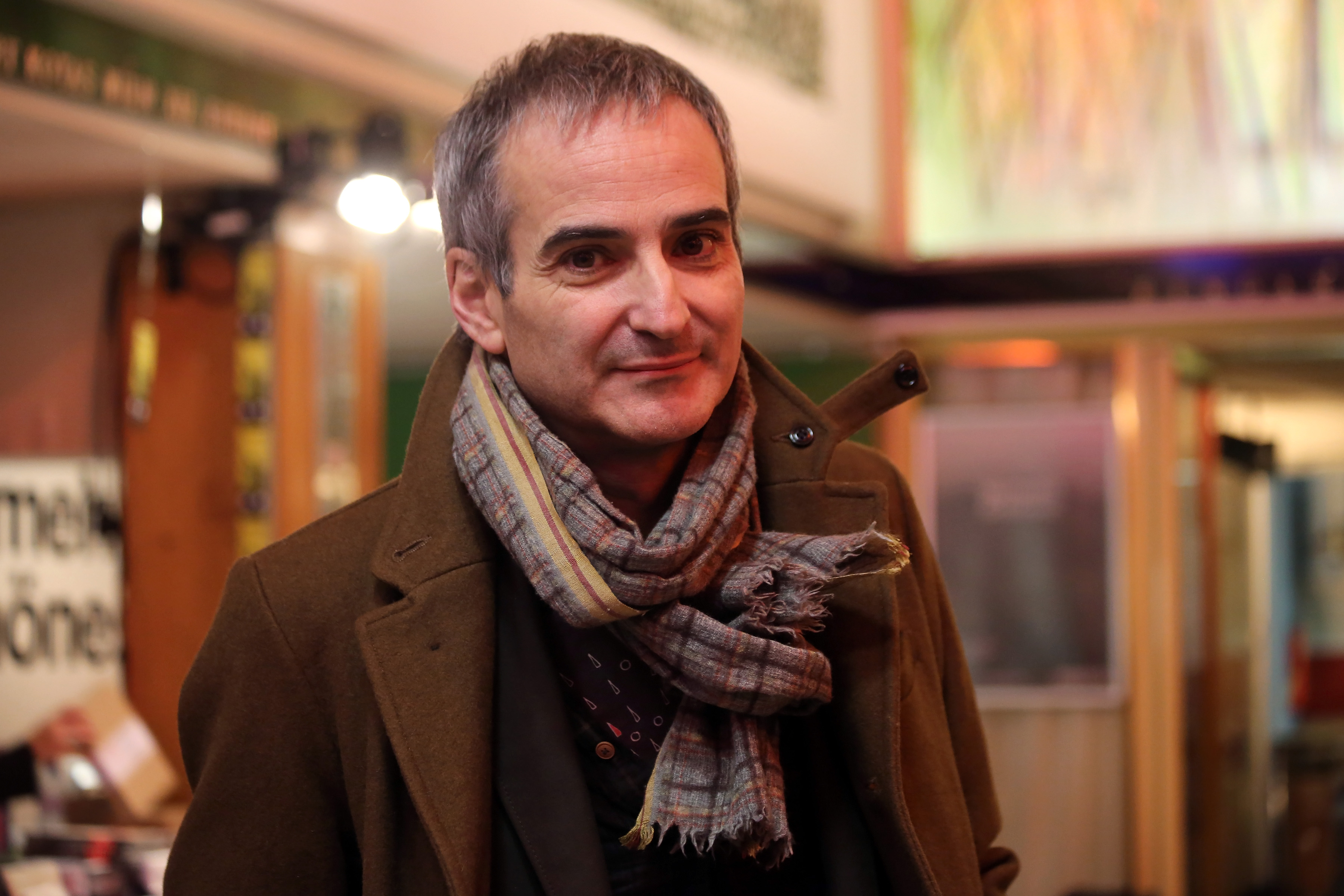 Olivier Assayas presenting Après mai at Vienna International Film Festival 2012 (Gartenbaukino).